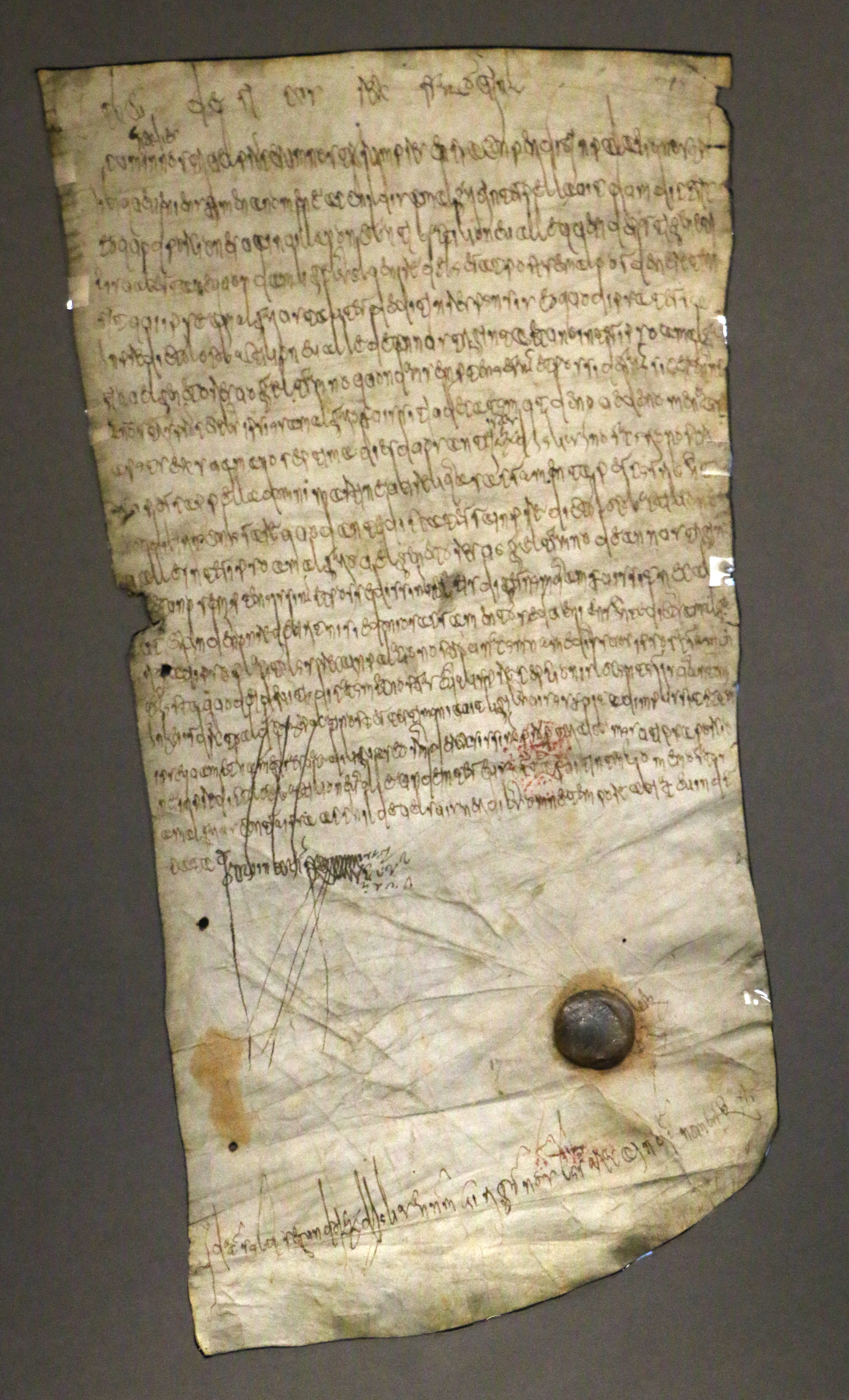 Decision of the royal tribunal of Theuderic III (june the 30th 679)